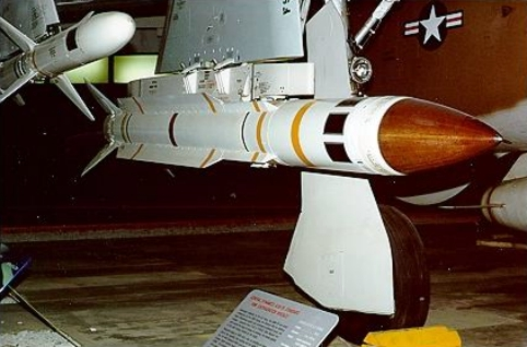 A U.S. Air Force General Dynamics AGM-78 Standard ARM (Antiradiation Missile) at the National Museum of the United States Air Force.